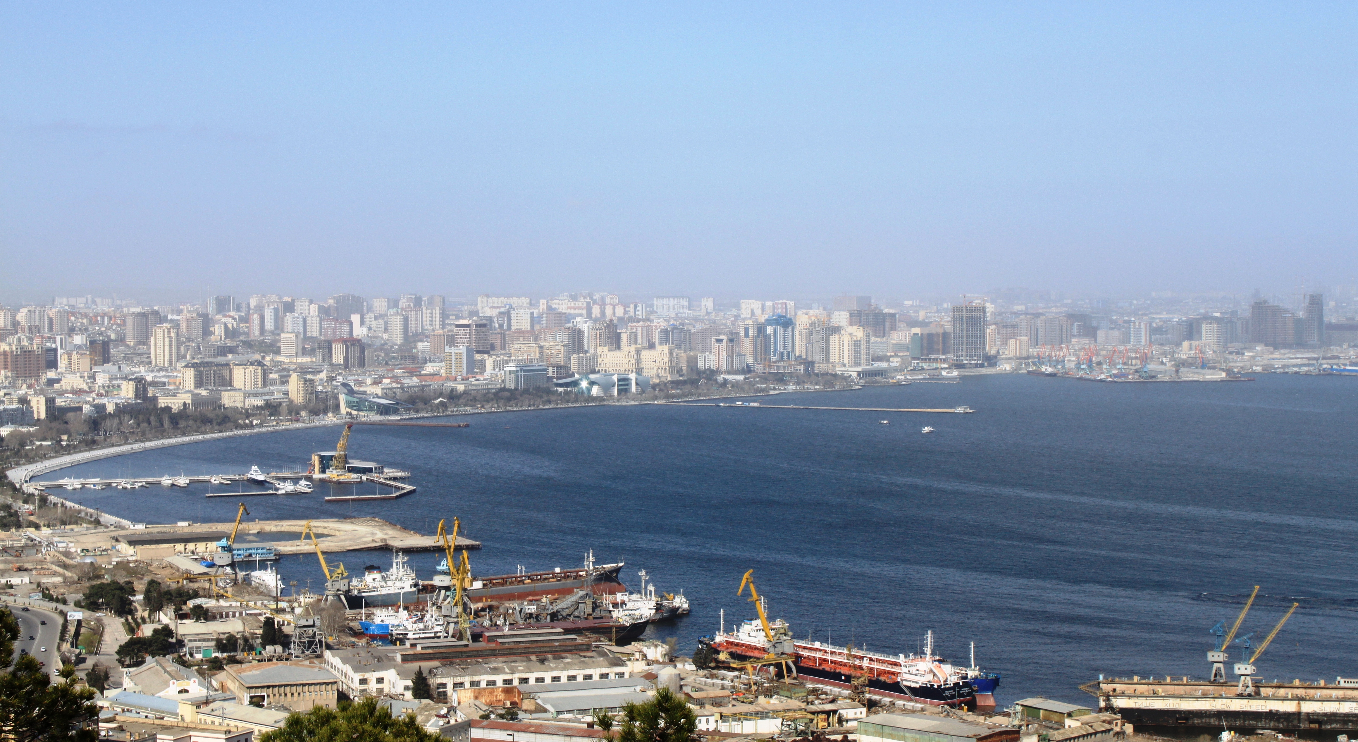 Panorama Baku city